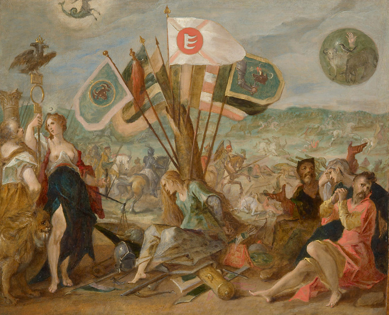 Allegory of the Turkish war: Battle of Hermannstadt (Transylvania), 3 August 1601. Actually, the battle was held at Goroszló (Transylvania), near Zilah city. Center: Discordia, helding some of the 110 flags captured by Michael the Brave and Giorgio Basta (left: Moldavia, right: Odorhei, center: Szigmond Bathory's flag). Right: Transylvanian prisoners sitting under a round shield with Transylvanian symbols: a hand, a bird, a donkey, a sheep. Left: goddess Diana, holding a spear with the imperial twin-headed eagle, under the Capricorn, emperor Rudolph II's astrological sign.